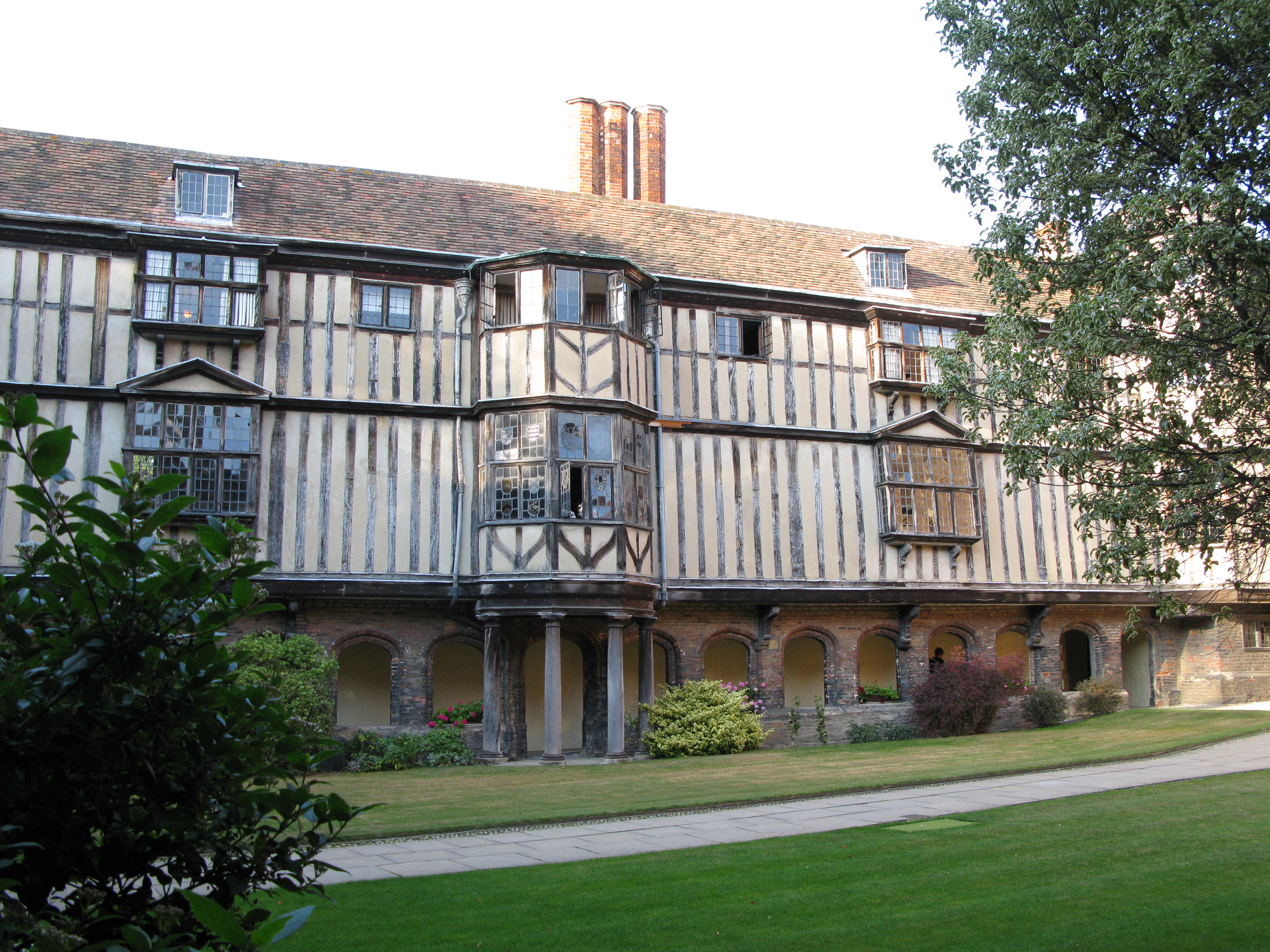 Presidents Lodge, Queens' College, Cambridge